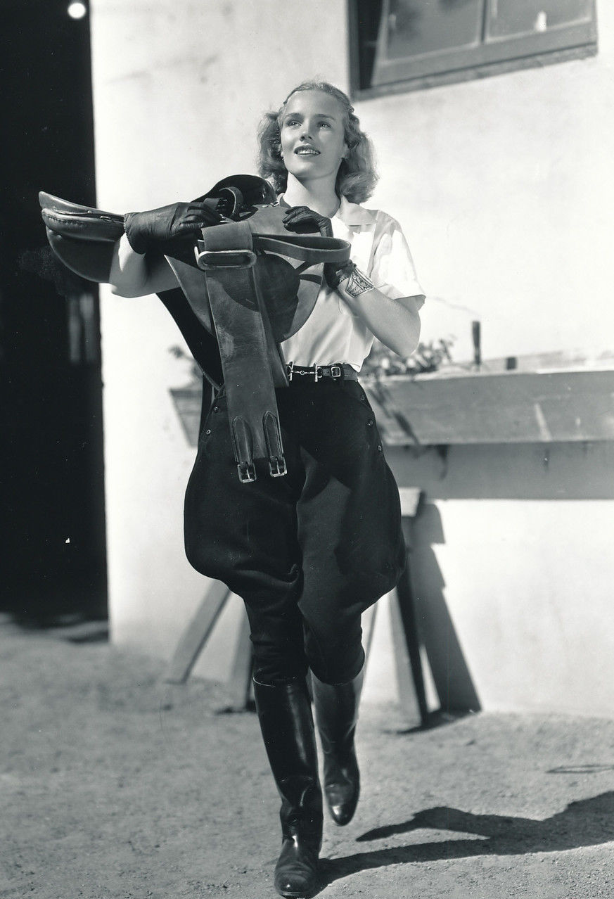 Still of Frances Farmer